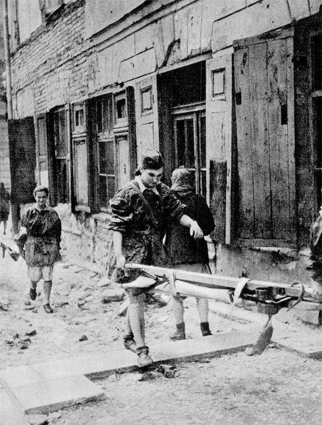 Warsaw Uprising: AK medics on Piwna Street in Old Town district.